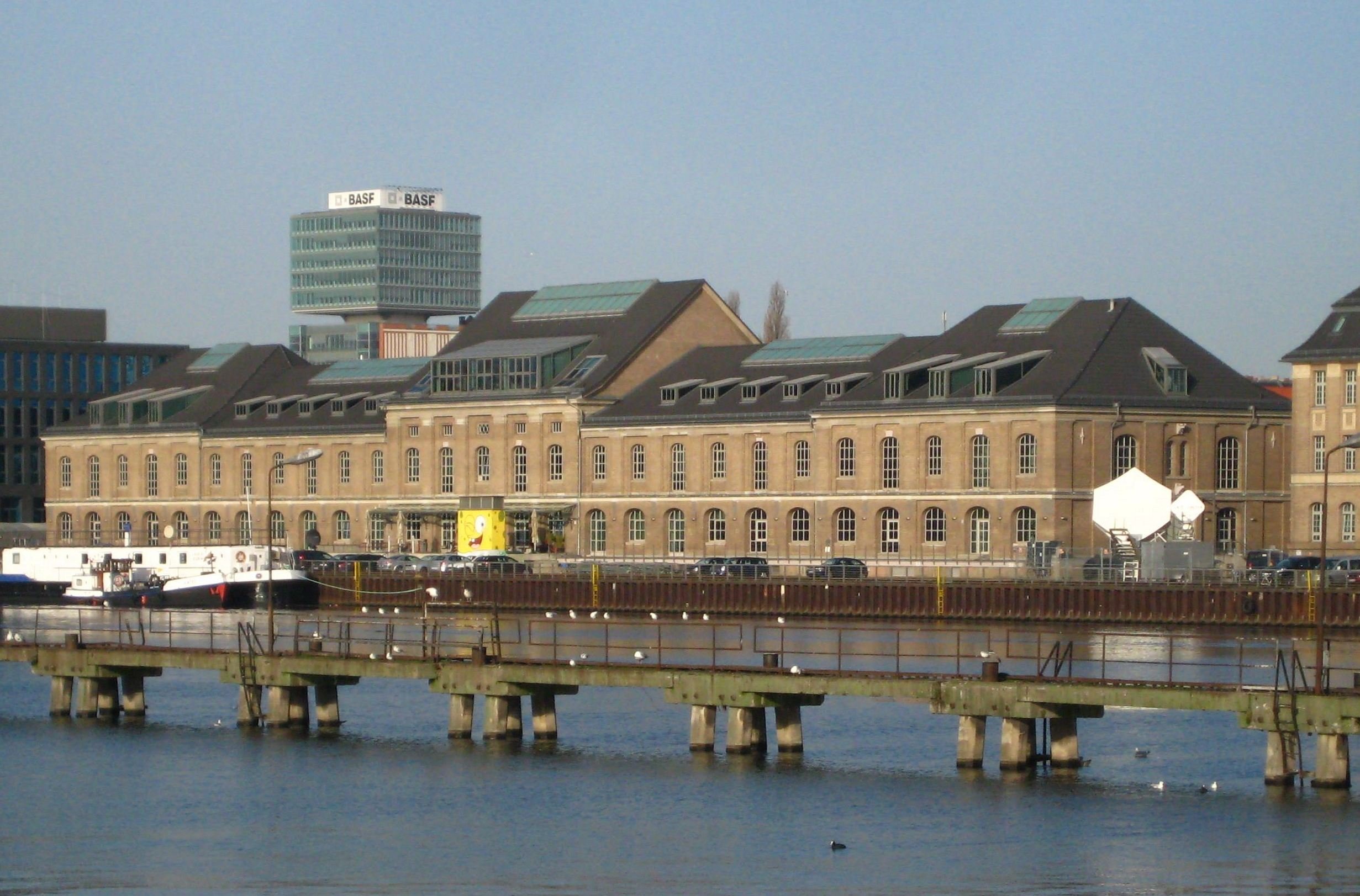 The former Storehouse 1 (West) of the Osthafen (East Harbor) on Stralauer Allee in Berlin-Friedrichshain, now seat of MTV Central Europe.